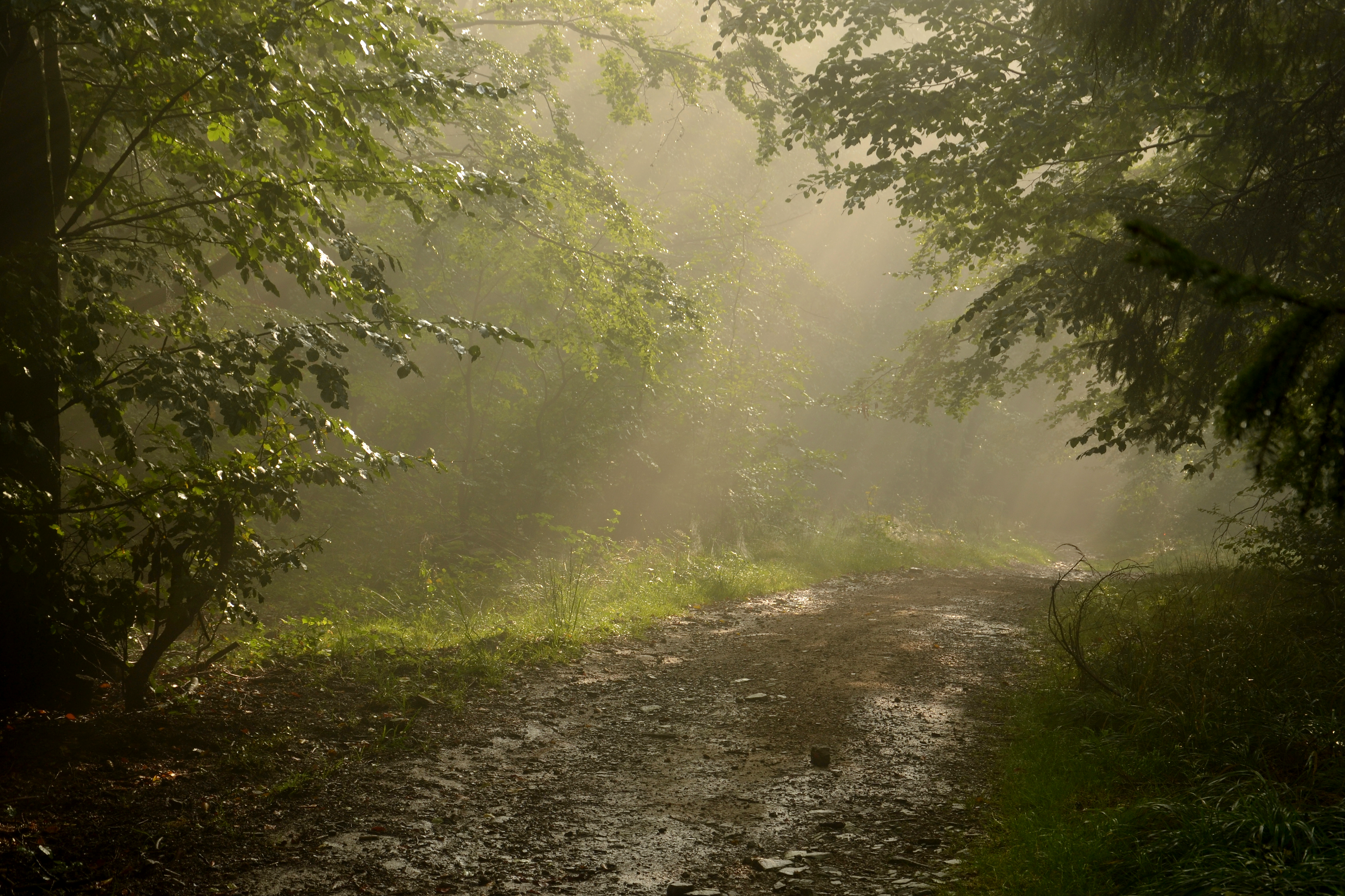 Beskid Mały mountains, Poland. Forest after rain. This is a photography of protected area with CRFOP ID PL.ZIPOP.1393.PK.26